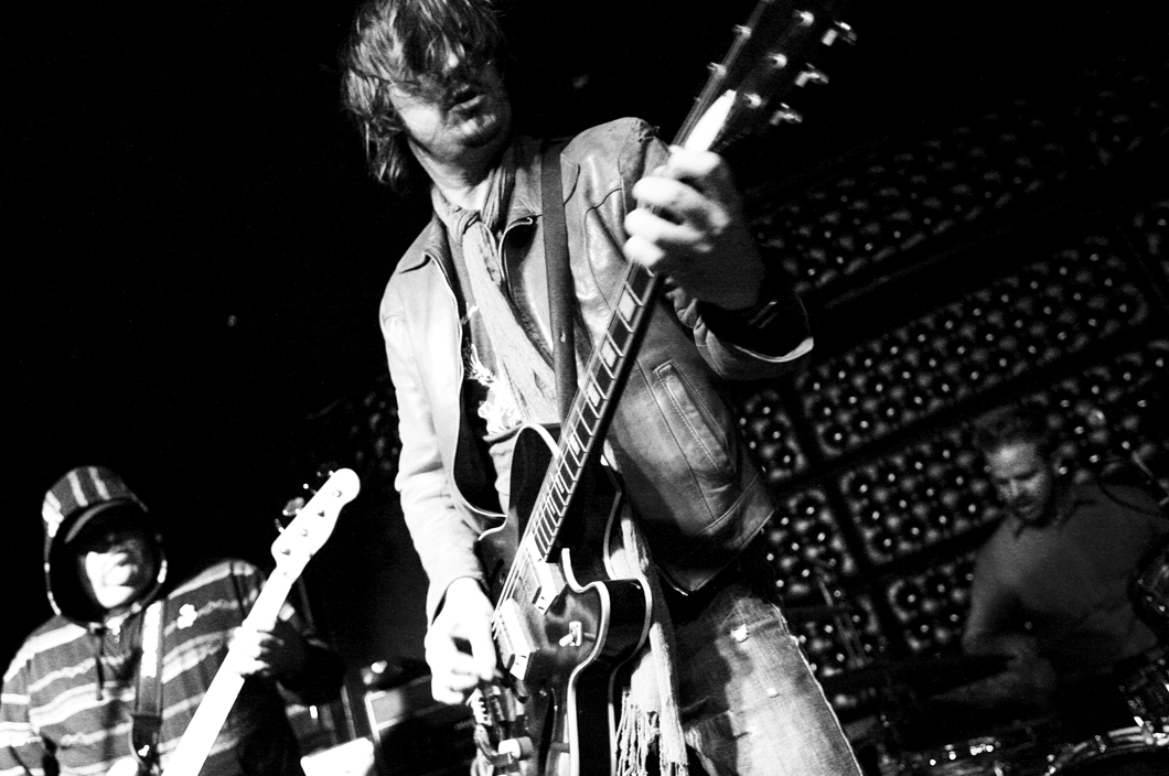 Wirepony at the Casbah, San Diego in 2010 photographs by Andy King.